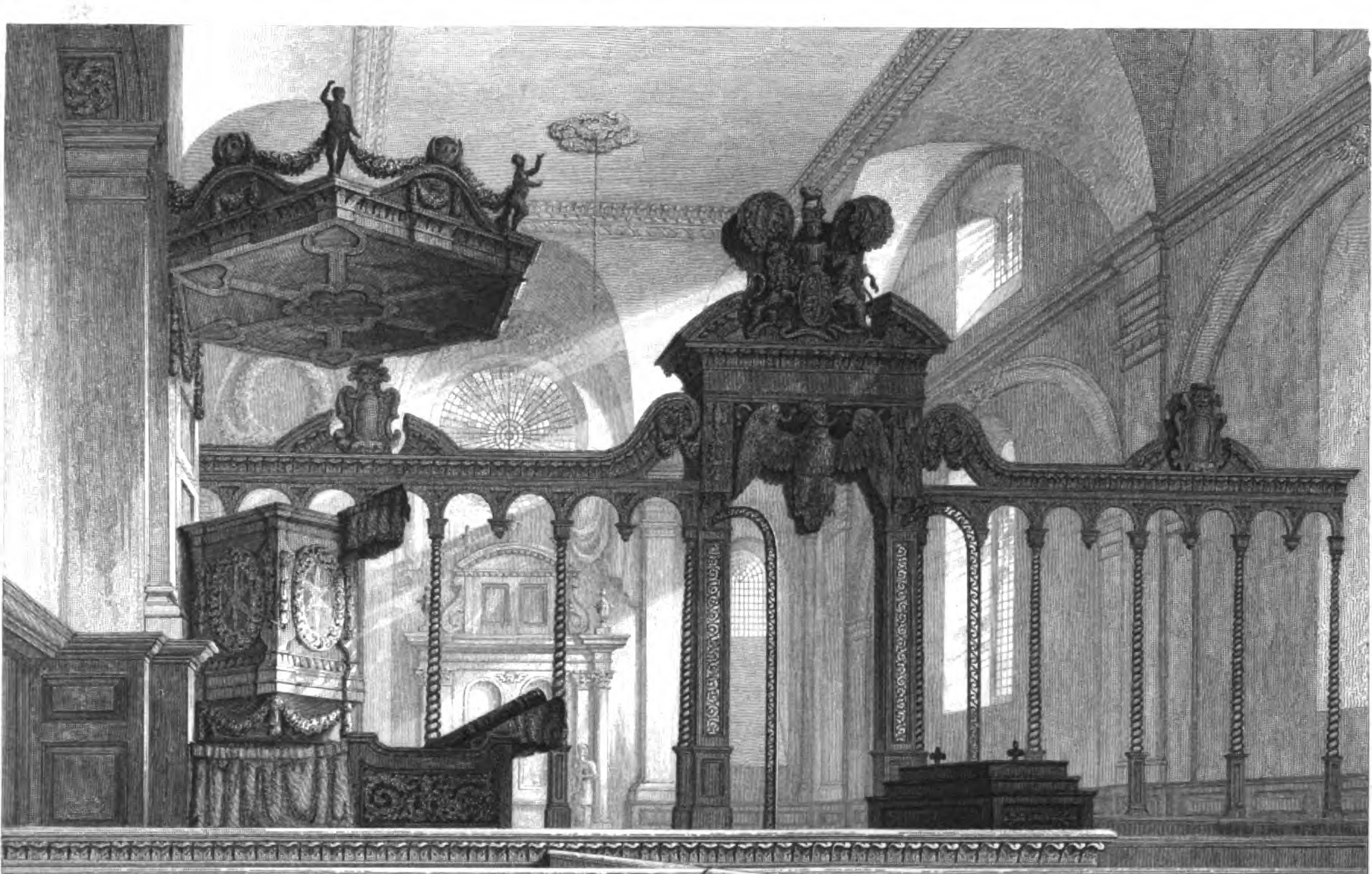 The interior of All Hallows the Great with the rood screen and the pulpit which were later moved to St Margaret Lothbury